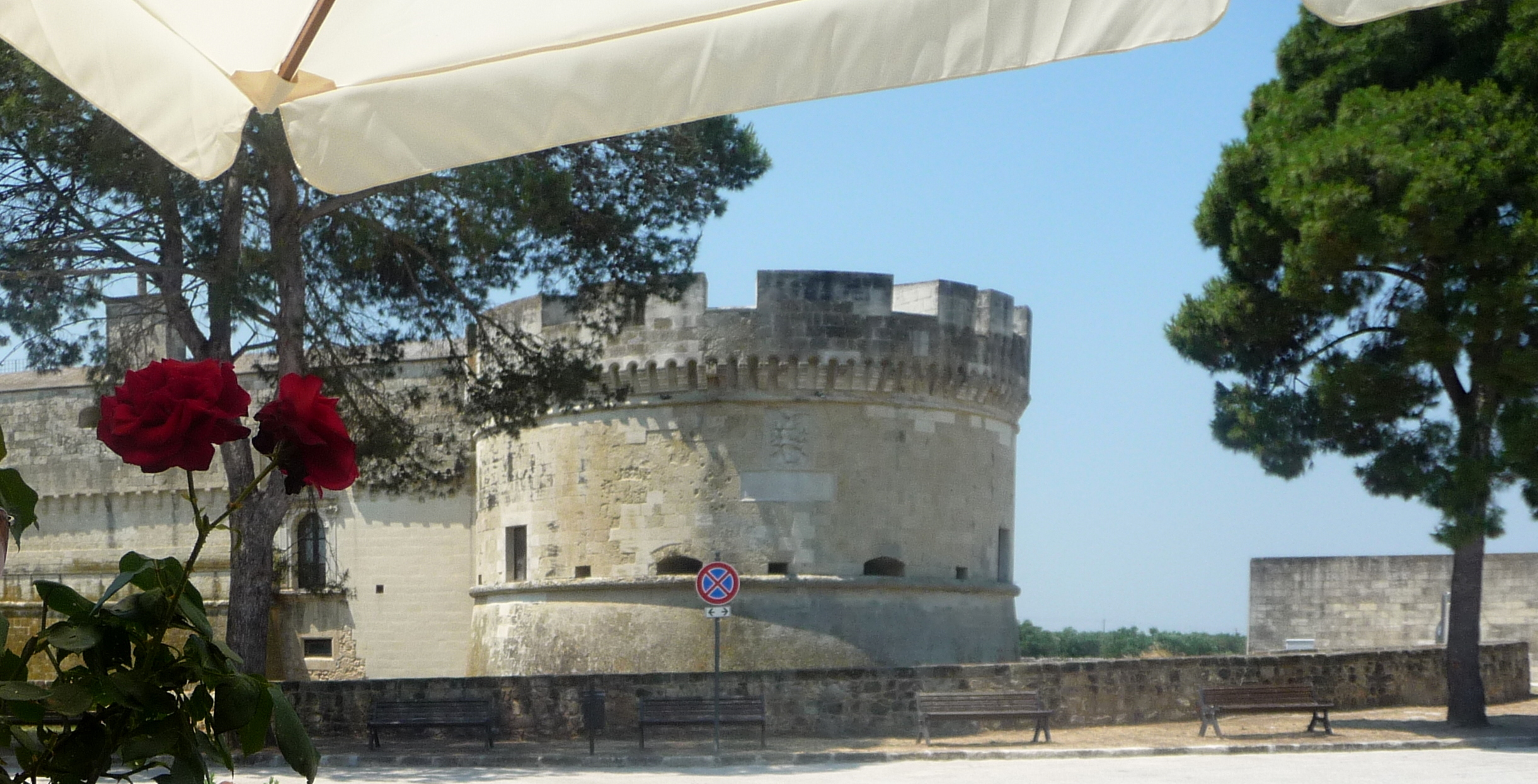 Acaya castle, Province of Lecce - Apulia, Italy, with XVI century cilindric tower.